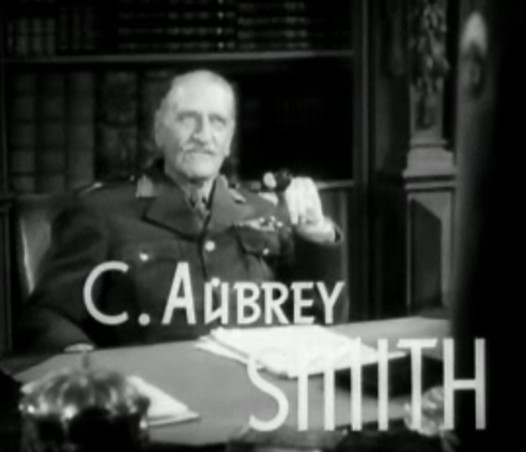 Cropped screenshot of C. Aubrey Smith from the trailer for the film Waterloo Bridge